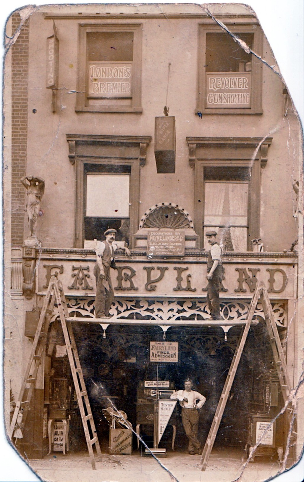 Fairyland, 92 Tottenham Court Road London circa 1905. During the period leading up to and during the First World War, 92 Tottenham Court Road in London was the location of a shooting range called Fairyland. In 1909, it was reported in a police investigation that the range was being used by two Suffragettes in a possible conspiracy to assassinate Prime Minister Herbert Asquith. It was the place where, in 1909, Madan Lal Dhingra practised shooting prior to his assassination of Sir William Hutt Curzon Wyllie. Other residents of India House and members of Abhinav Bharat practiced shooting at the range and rehearsed assassinations they planned to carry out. It was also the place where, with regard to in R v Lesbini (1914), Donald Lesbini shot Alice Eliza Storey. R v Lesbini was a case that established in British, Canadian and Australian law that, with regard to voluntary manslaughter, a reasonable man always has reasonable powers of self control and is never intoxicated. The shooting range was owned and run by Henry Stanton Morley (1875-1916)